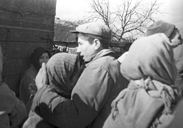 “Conscripts' departure to the army”. Conscripts' departure to the army. Nikolayev suburbs. The Great Patriotic War of 1941-1945. Reproduction of a photo of 1941.